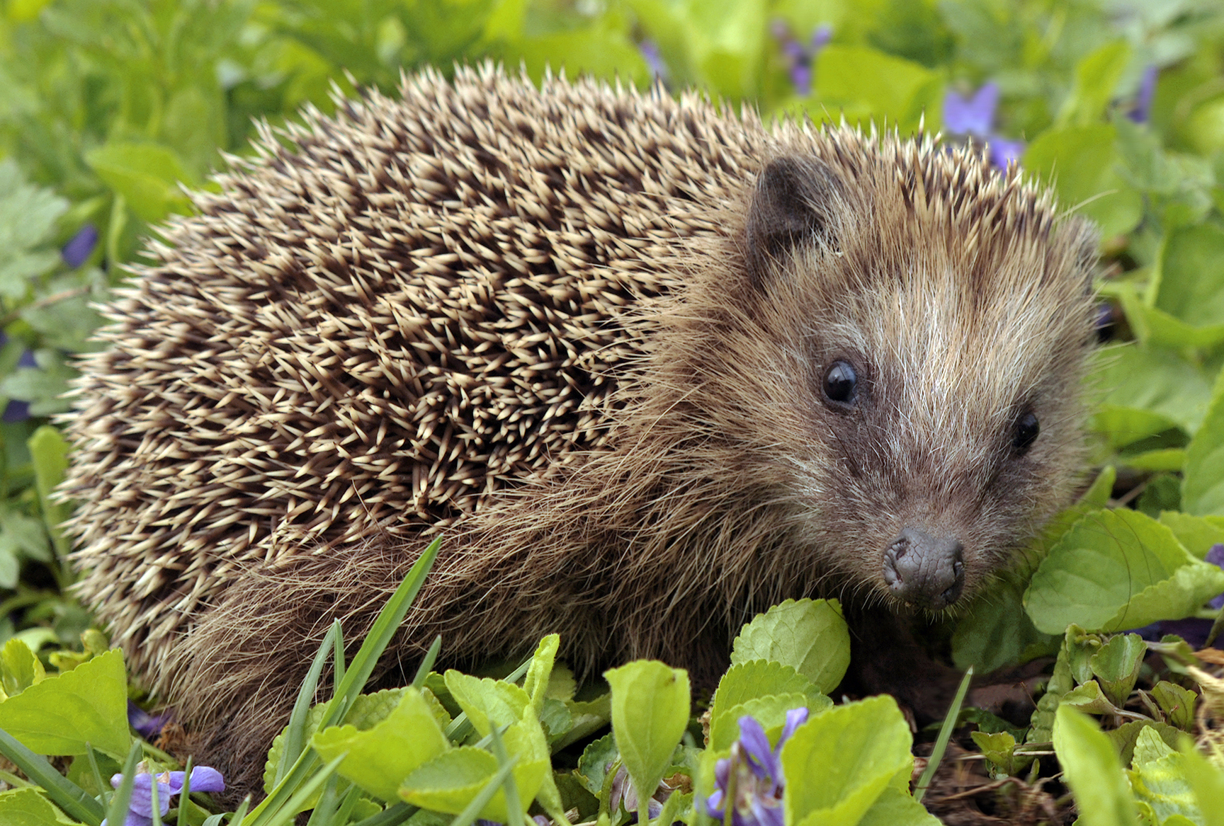 Young European hedgehog (Erinaceus europaeus), or common hedgehog, is a hedgehog species found in northern and western Europe.